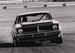 Ian Geoghegan's Group C Ford XY Falcon GTHO, driven by John French at Lakeside International Raceway for Round 6 of the 1971 Australian Touring Car Championship, 25th July 1971. Photo by Graham Ruckert.